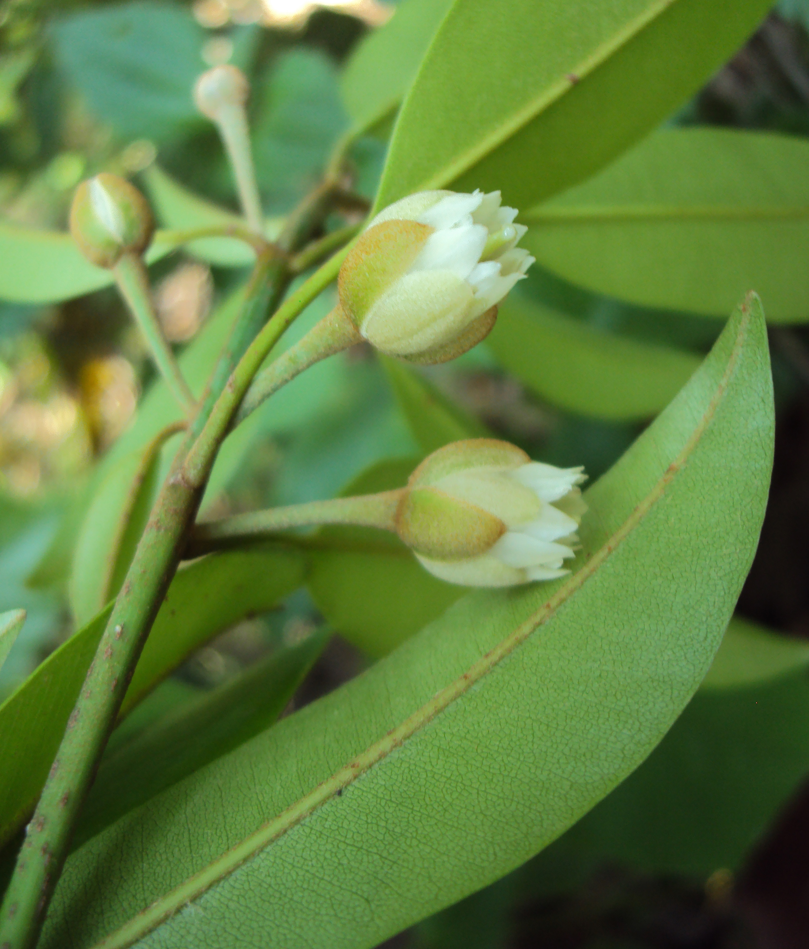 Manilkara zapota